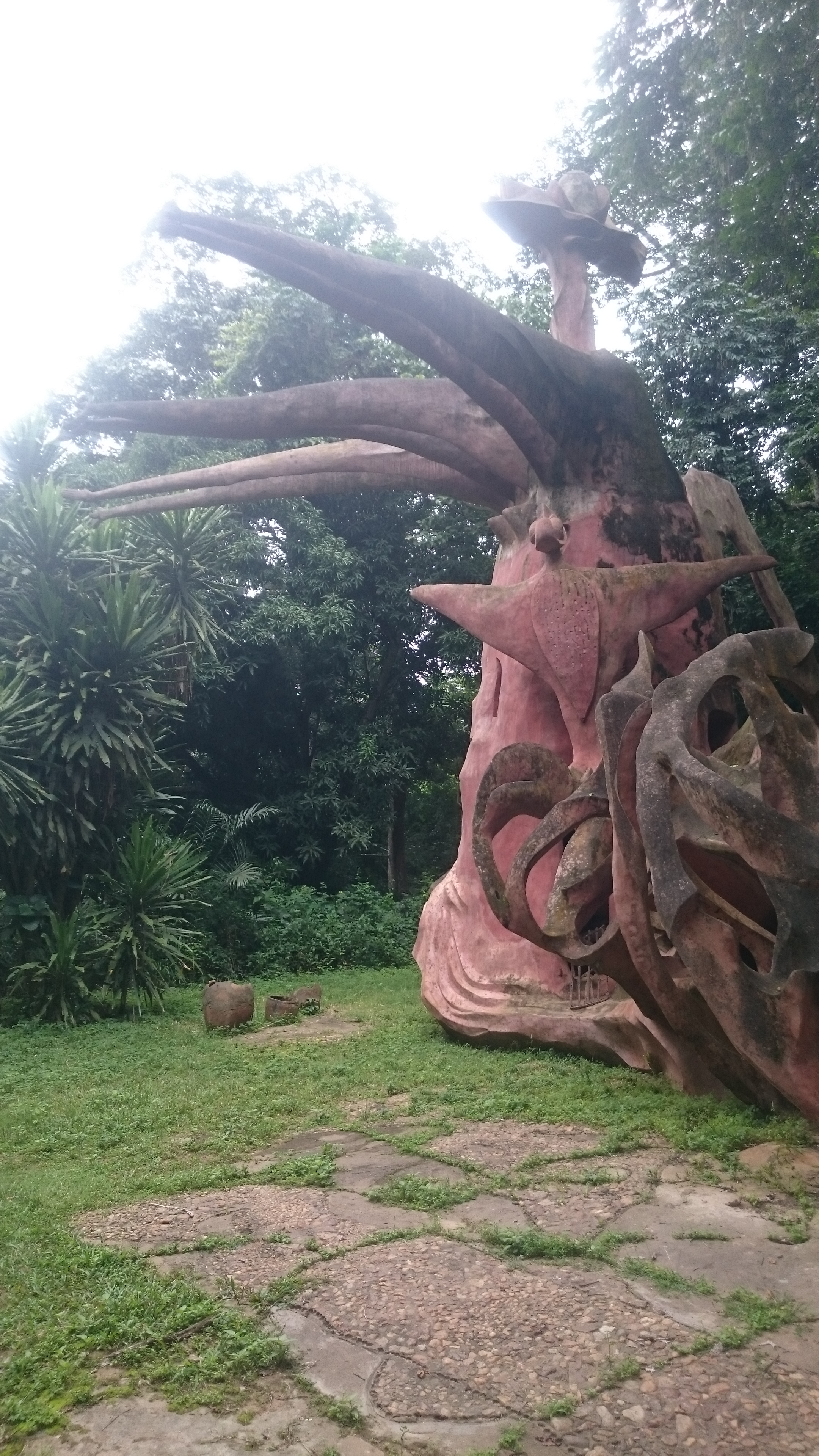 Their are several statues given different names in the Grove, this is one of them. Osun-Osogbo or Osun-Osogbo Sacred Grove is a sacred forest along the banks of the Osun river just outside the city of Osogbo, Osun State, Nigeria. The Osun-Osogbo Grove is among the last of the sacred forests which usually adjoined the edges of most Yoruba cities before extensive urbanization. In recognition of its global significance and its cultural value, the Sacred Grove was inscribed as a UNESCO World Heritage Site in 2005.